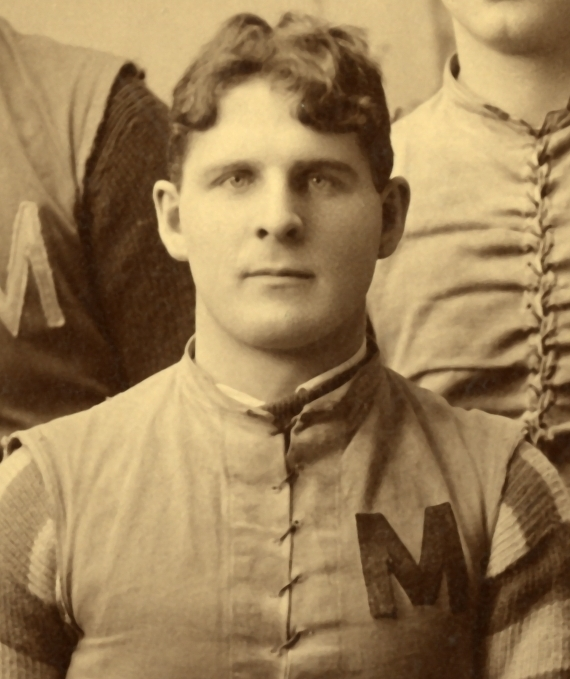 Photograph of William C. Malley